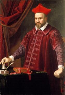 Cardinal Camillo Borghese, future Pope Paul V